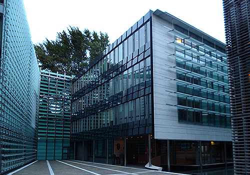 Embassy of Sweden, Berlin, Germany, architect Gert Wingårdh